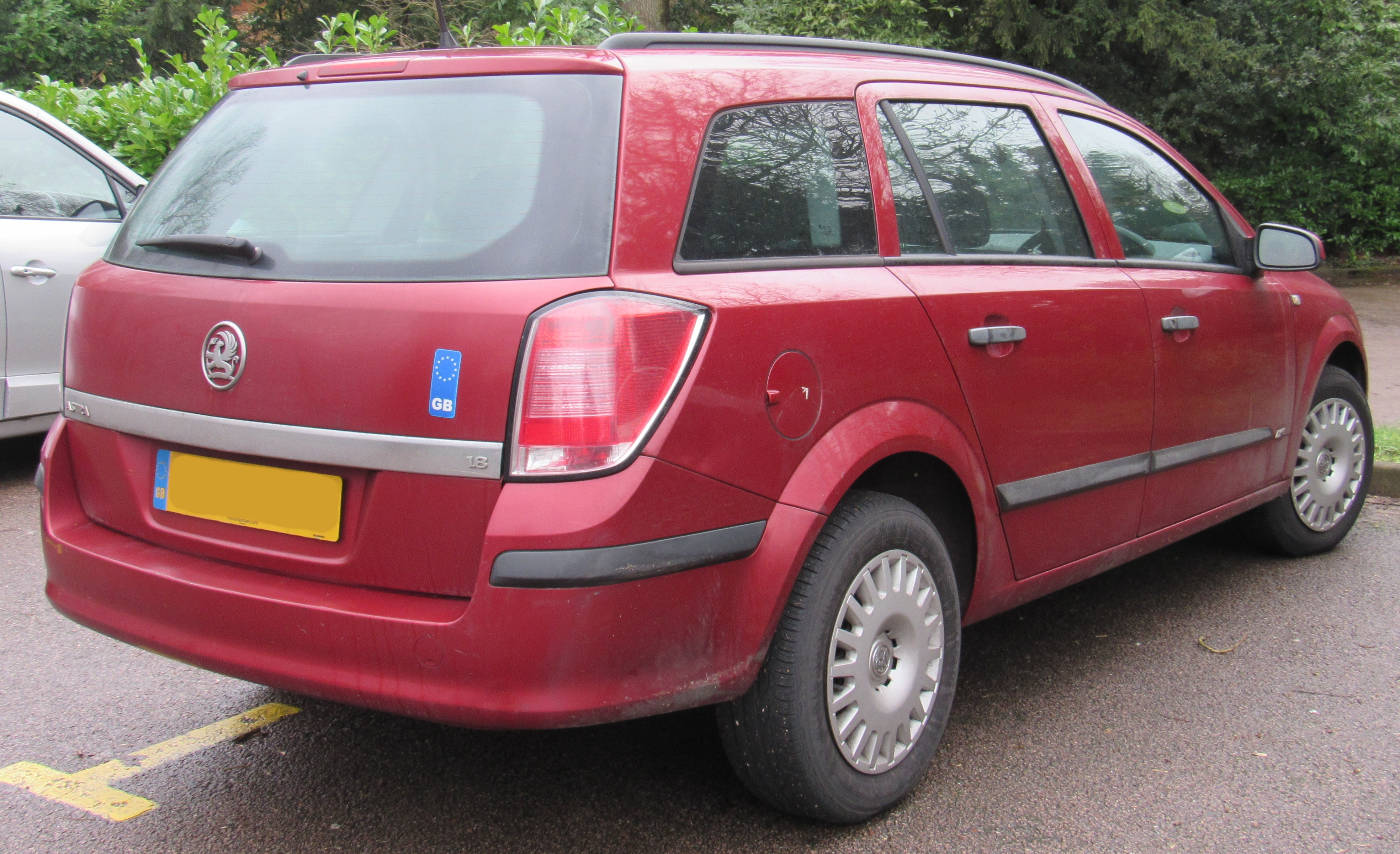 2006 Vauxhall Astra Life Automatic Estate 1.8 Rear Taken in Warwick